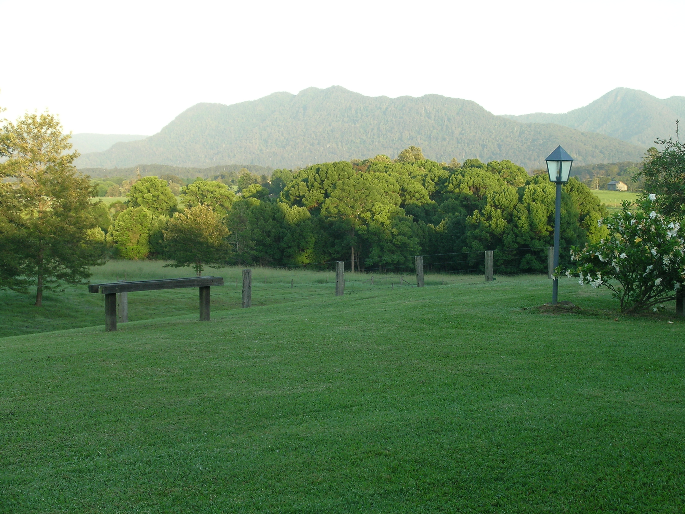 Sunrise scene with the Dorrigo Range backdrop, Bellingen, NSW